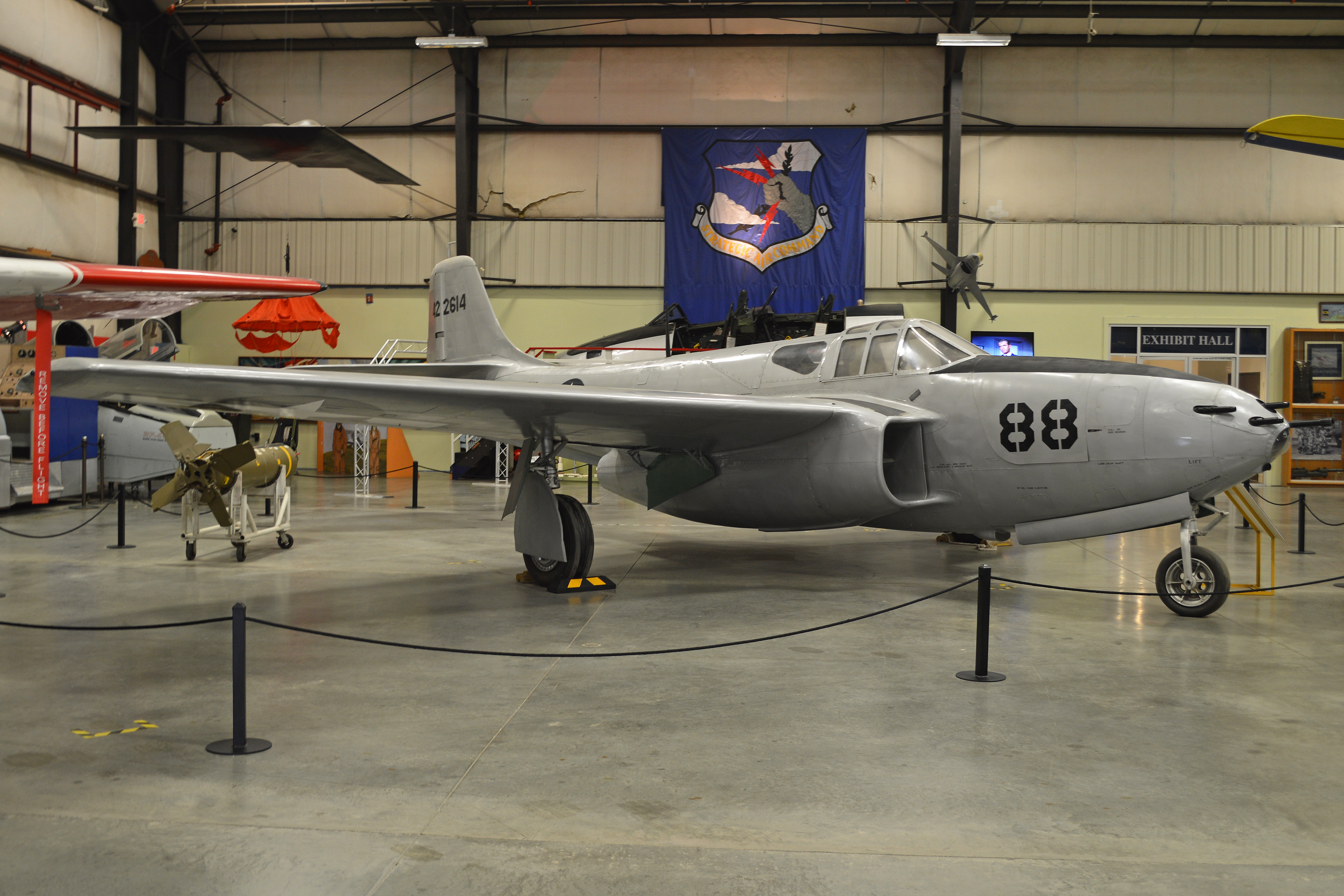 c/n 27-22. Built 1944. US military serial 44-22614. Only six P-59s survive, and this is the only production ‘A’ variant. On display at the March Field Air Museum, Riverside, CA, USA. 28-2-2016